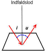 The picture illustrates the law of reflectionDansk: Billedet viser en illustration af refleksionsloven